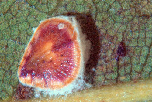 Scale insect under a laurel leaf.